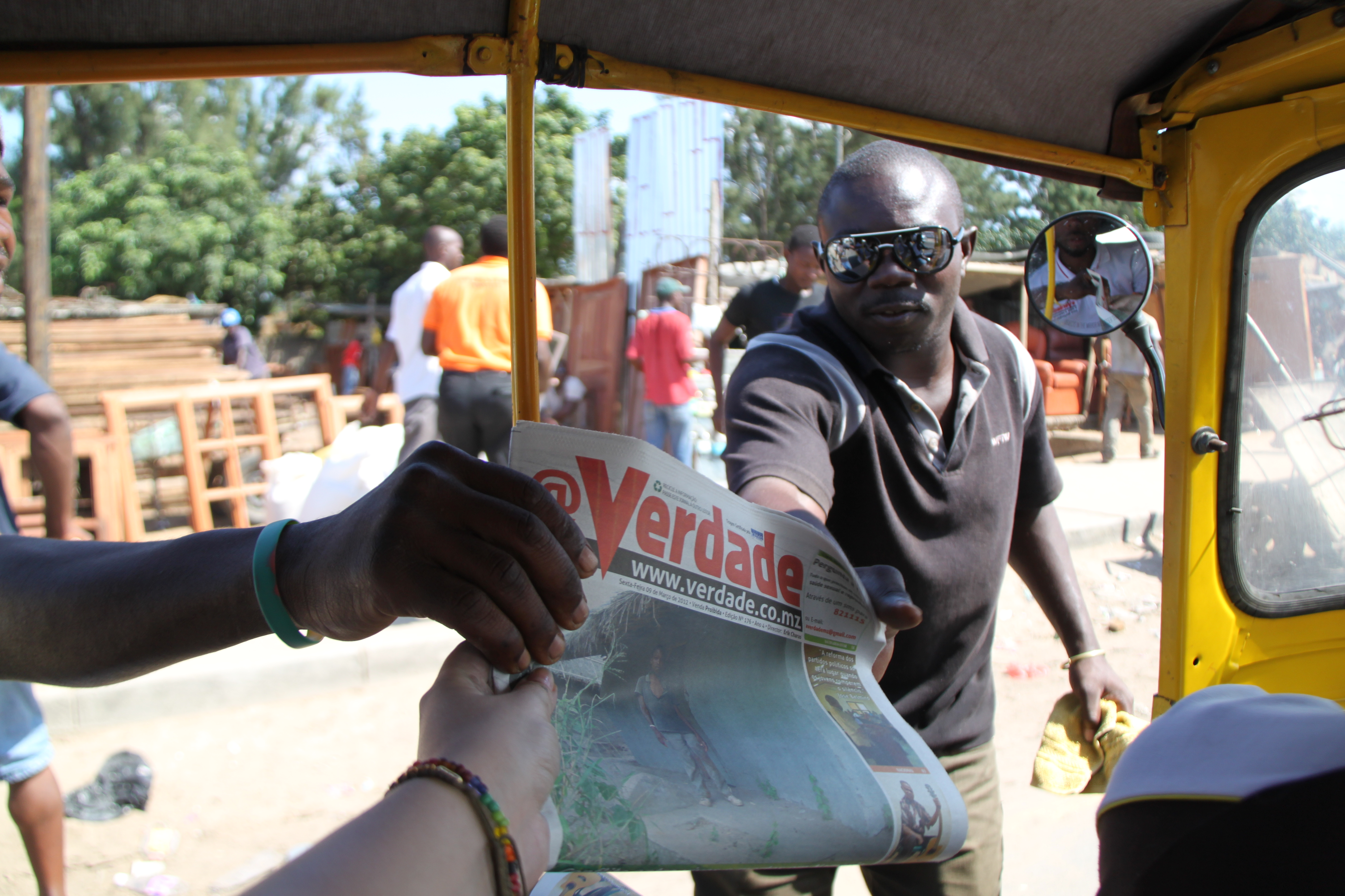 Distribution of the A Verdade newspaper by Txopela drivers in the outskirts of Maputo, Mozambique.